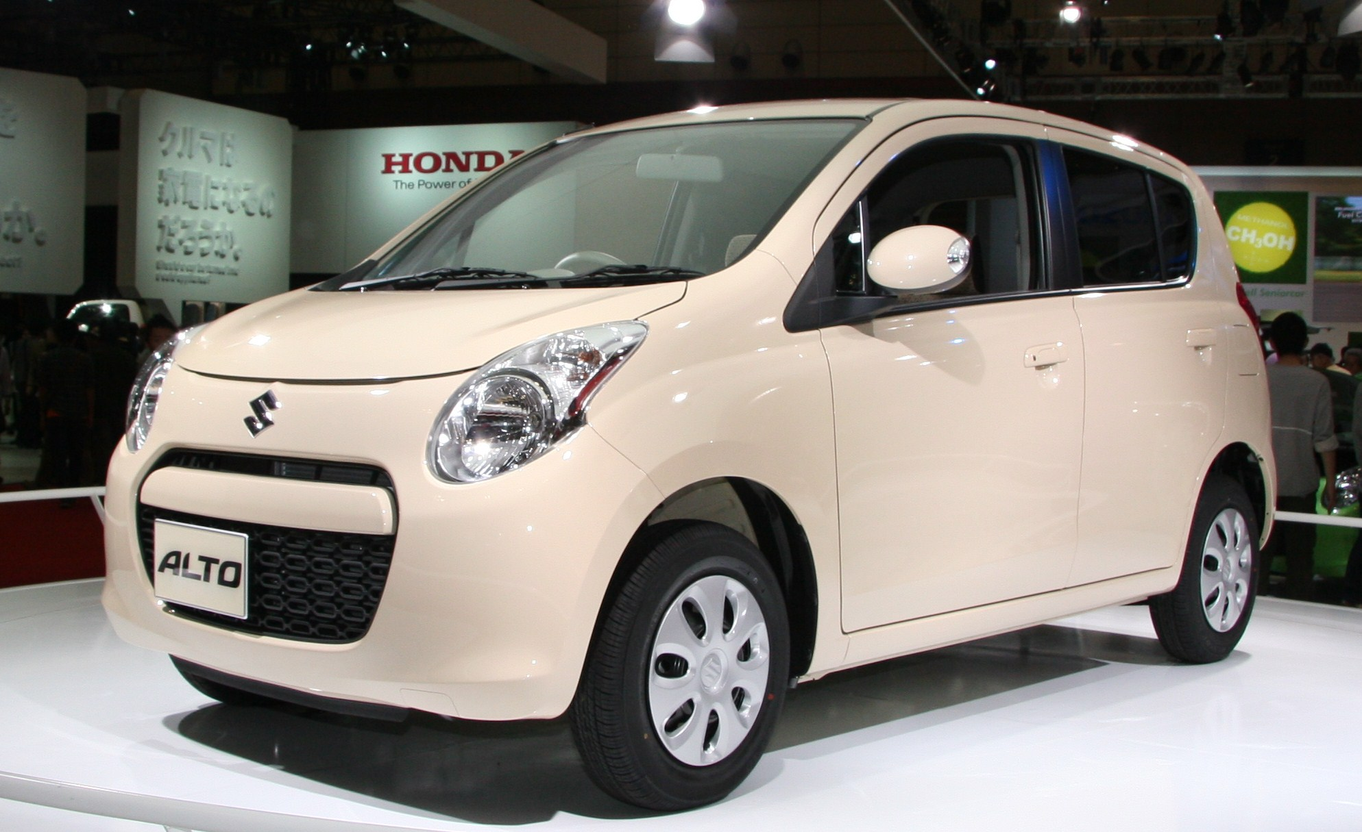 Suzuki Alto